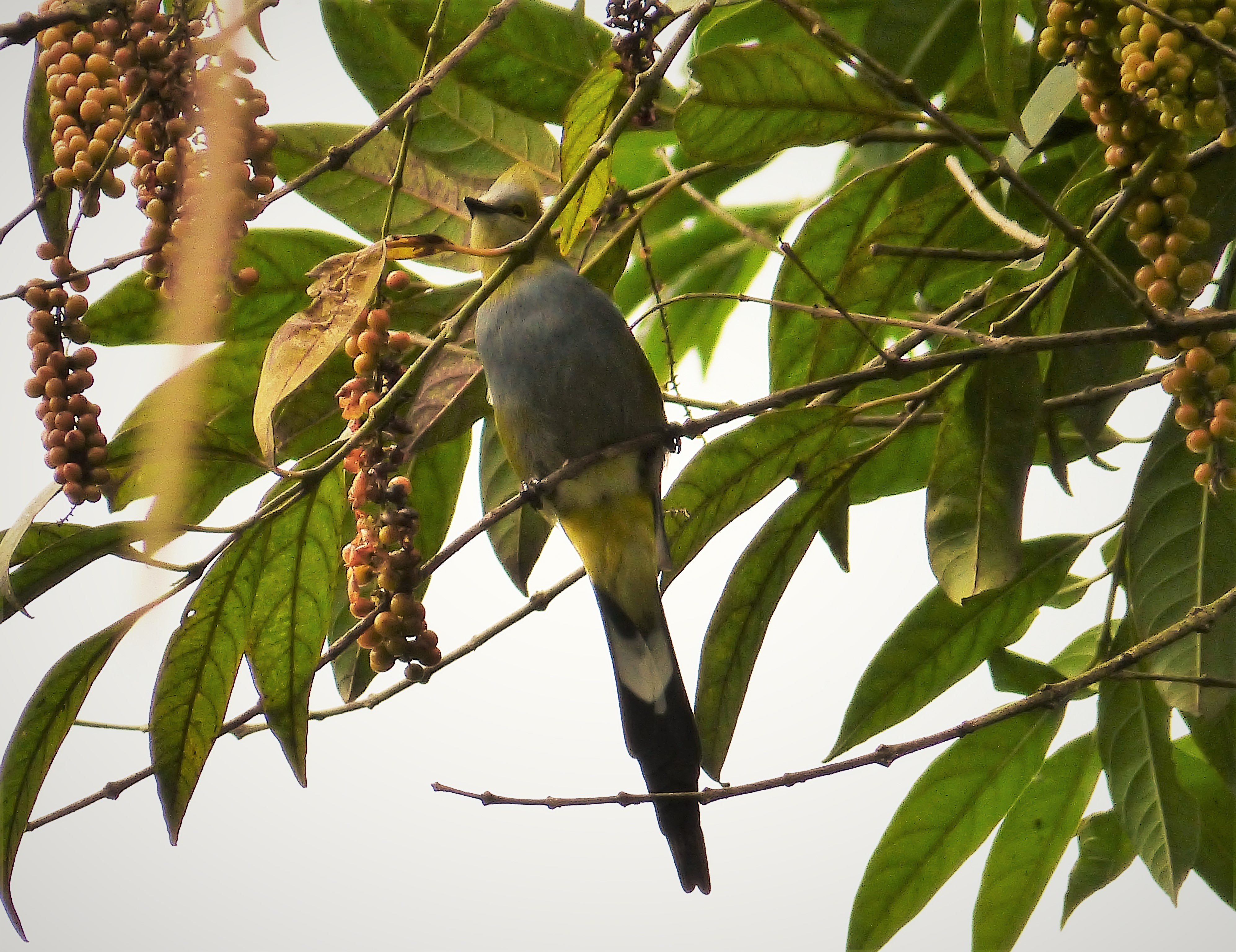 One of my favourite Birds, reminds me of a Cockateil. Tinsiara Rio Sereno, Chiriqui Province, Panama